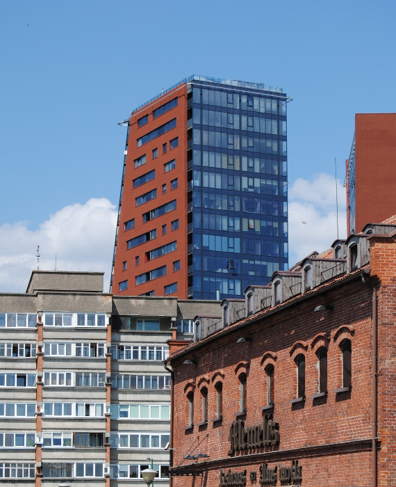 German, soviet and modern lithuanian architecture in Klaipėda, Lithuania